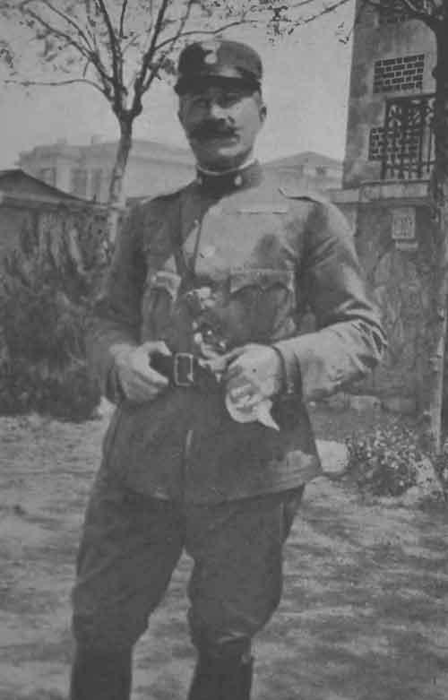 Colonel Epaminontas Zimvrakakis 1863 1922 commander of Greek Serre division at Salonica front